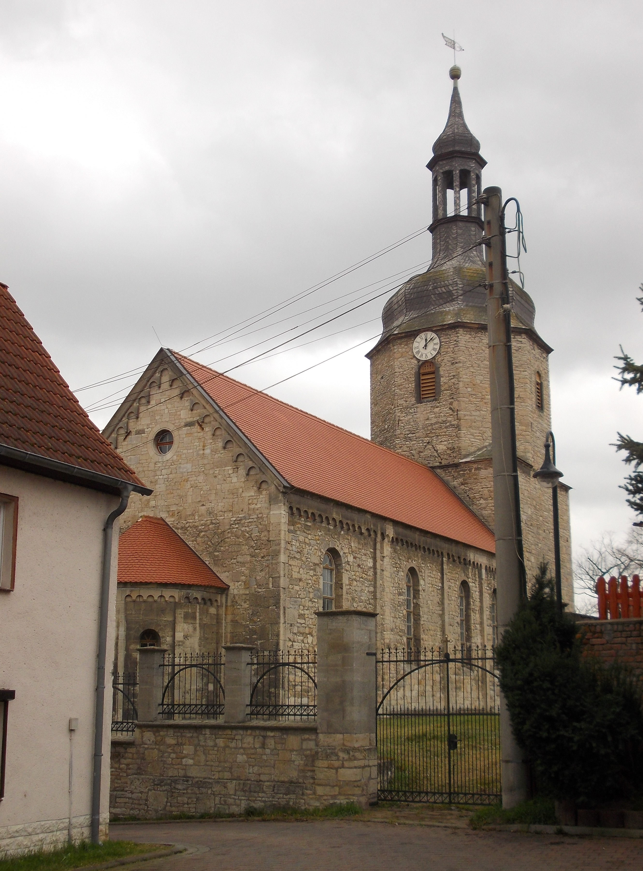 Redeemer Church in Braunsdorf (Braunsbedra, district: Saalekreis, Saxony-Anhalt)